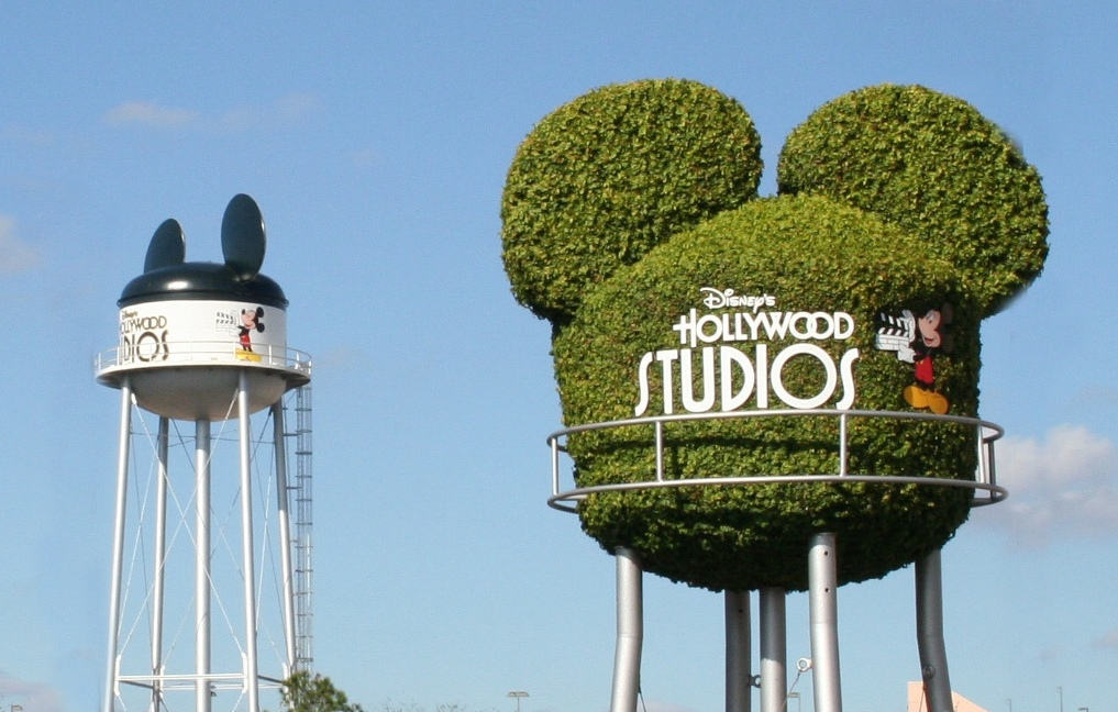 Photograph from backlot tour at Disney Hollywood Studios 2008 showing Earffel Tower and a topiary version, now both removed to make way for Toy Story land.